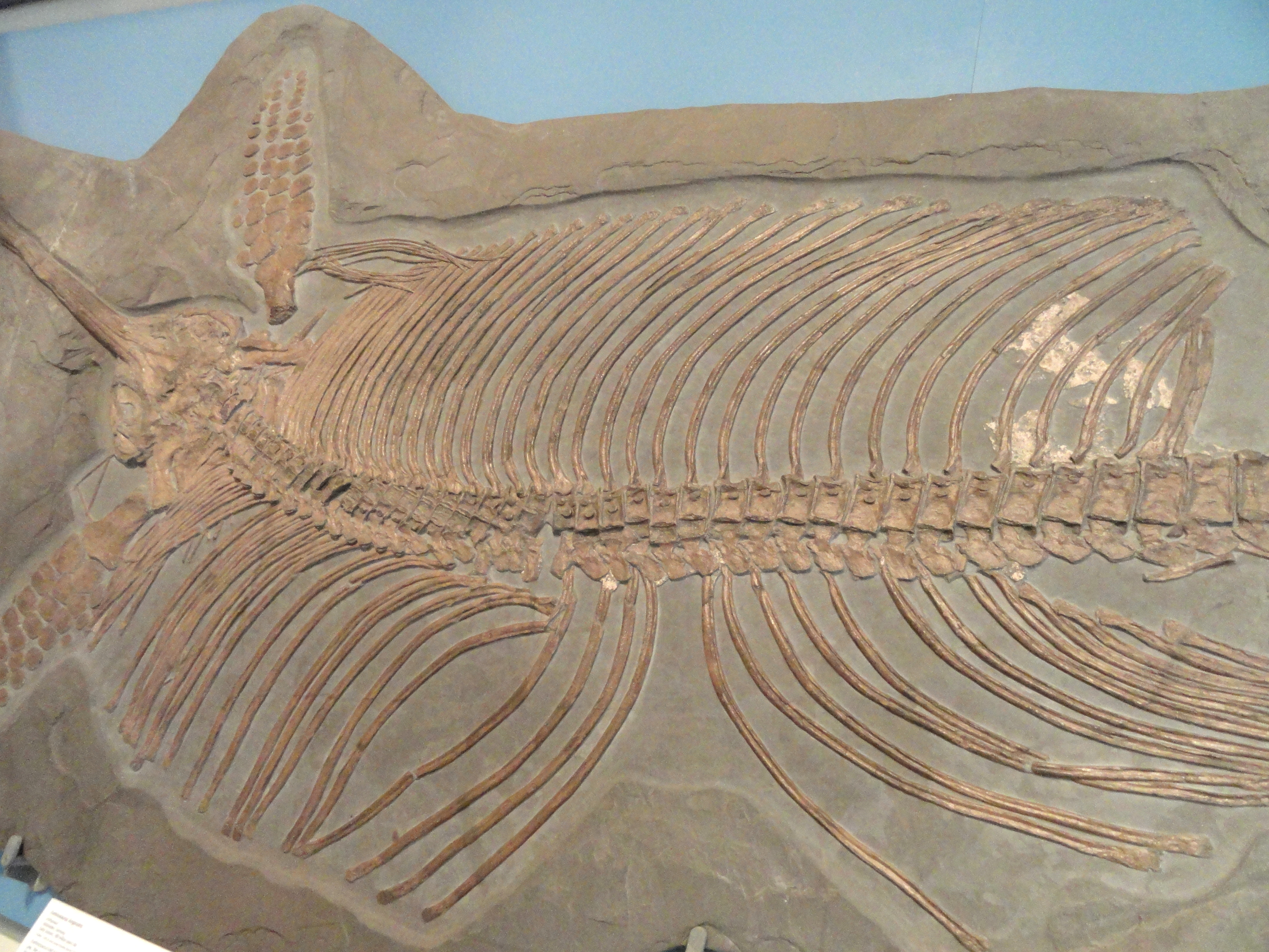 Exhibit in the Royal Ontario Museum, Toronto, Ontario, Canada. This exhibit is old enough so that it is in the public domain, and photography was permitted in the museum. I took this photograph and release it into the public domain.